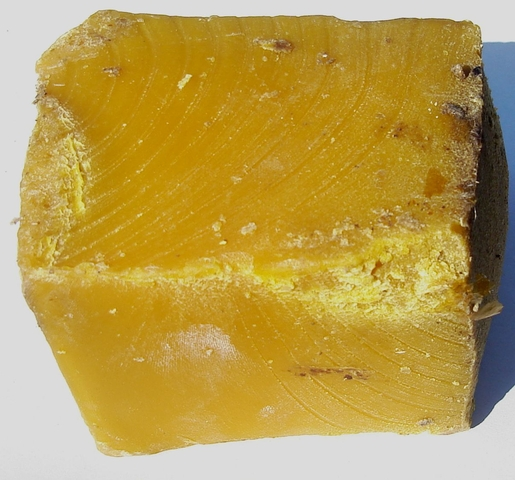 wax